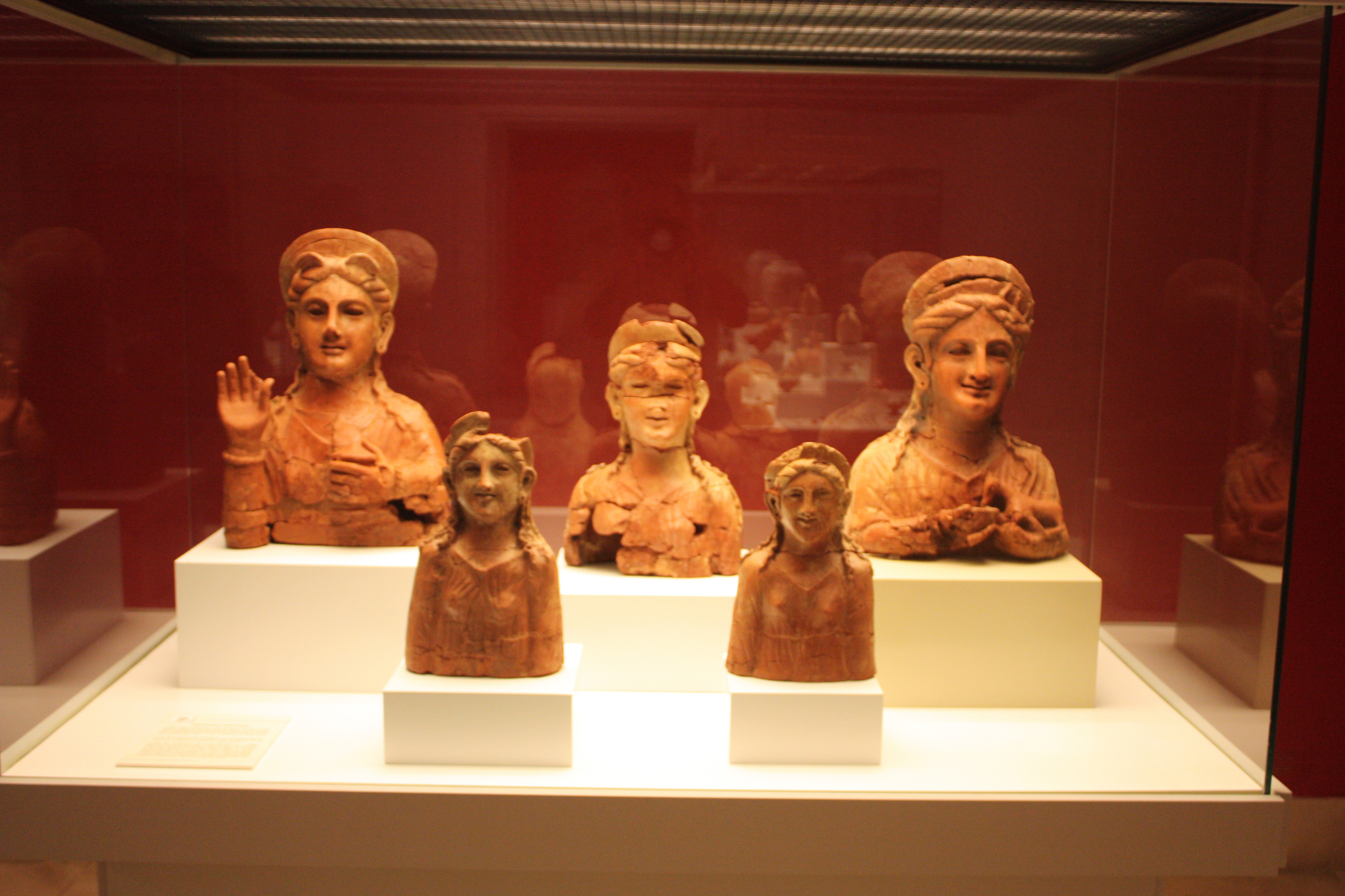 Discards of Phoenician funerary statues workshop found in a well during excavation in an old neighborhood of Cádiz.